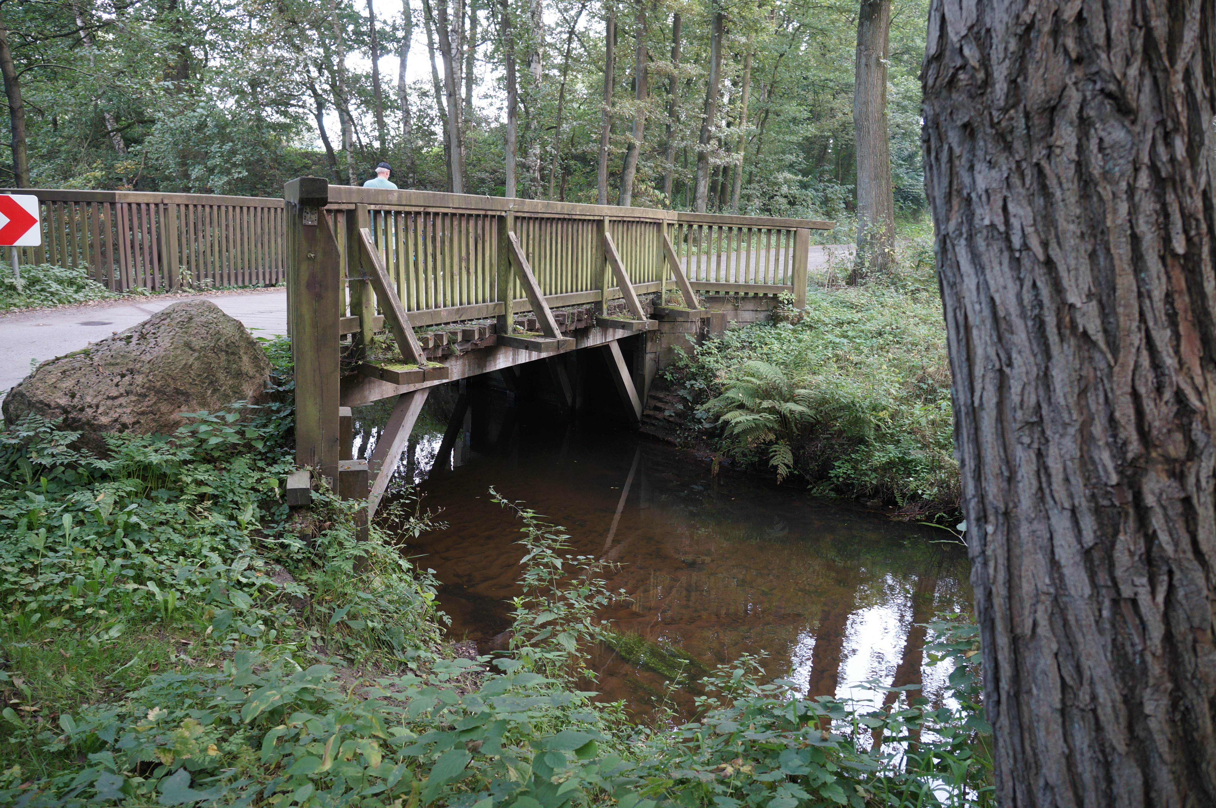 Aue bridge between Thölstedt and Steinloge